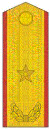 Major General (PLAGF OF-8 Type 88)